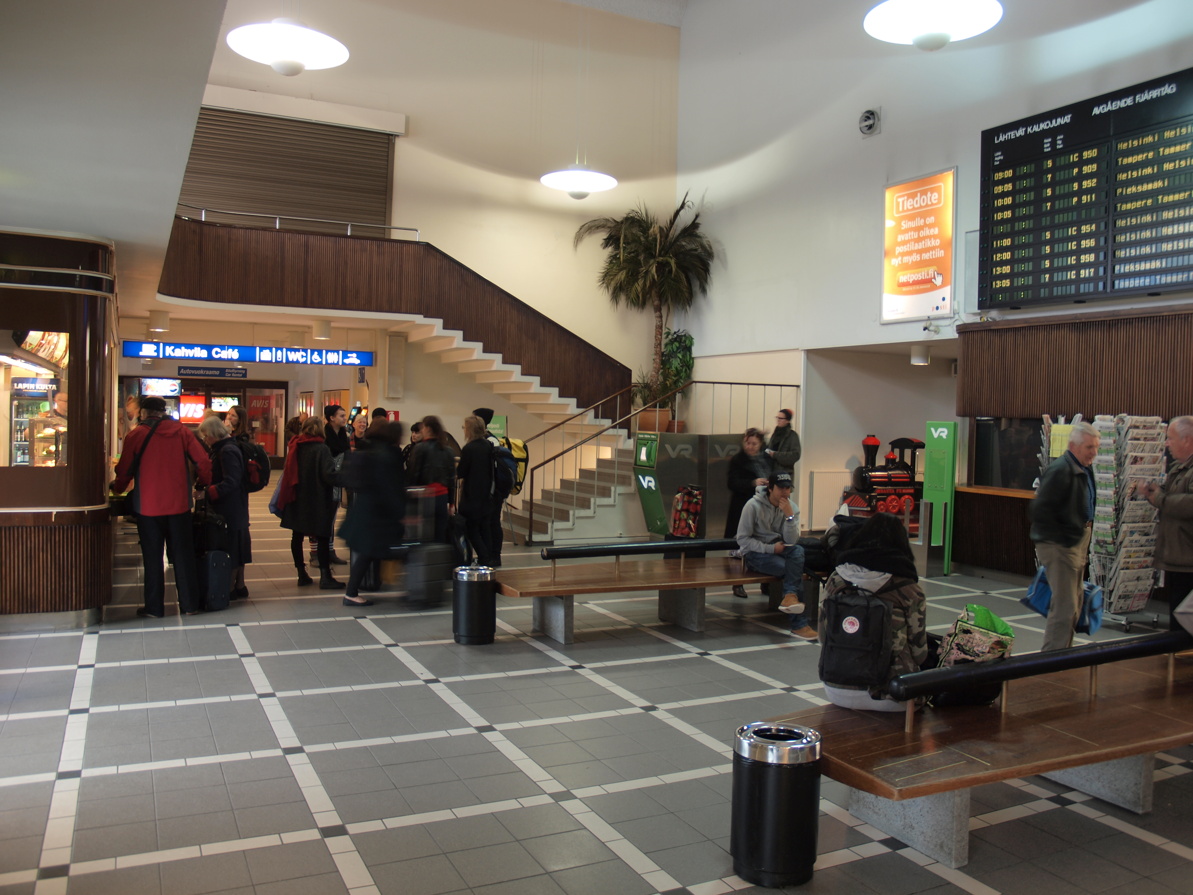 The interior of the Turku Central railway station in Turku, Finland Proper (I still refuse to call it "Southwest Finland"), Finland. Turku is unique in Finnish railways because it has three railway stations - Kupittaa, Turku Central and Turku Harbour, and all serve long-distance trains. Not even Helsinki or Tampere can achieve this.